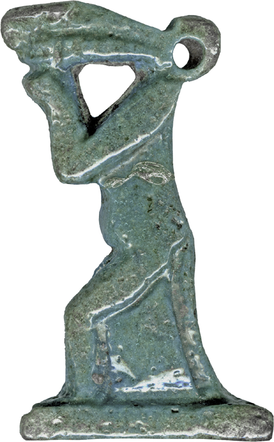 The serpent-god Neheb-kau was one of 42 "judges" the deceased encountered in the underworld, according to the funerary text known as "The Book of the Dead." Neheb-kau, identified with invincible living power, provided nourishment to the dead; he was also identified as a manifestation of the creator god Atum. This representation has a human body with a serpent head and tail. The knees are flexed, and the hands at the mouth.